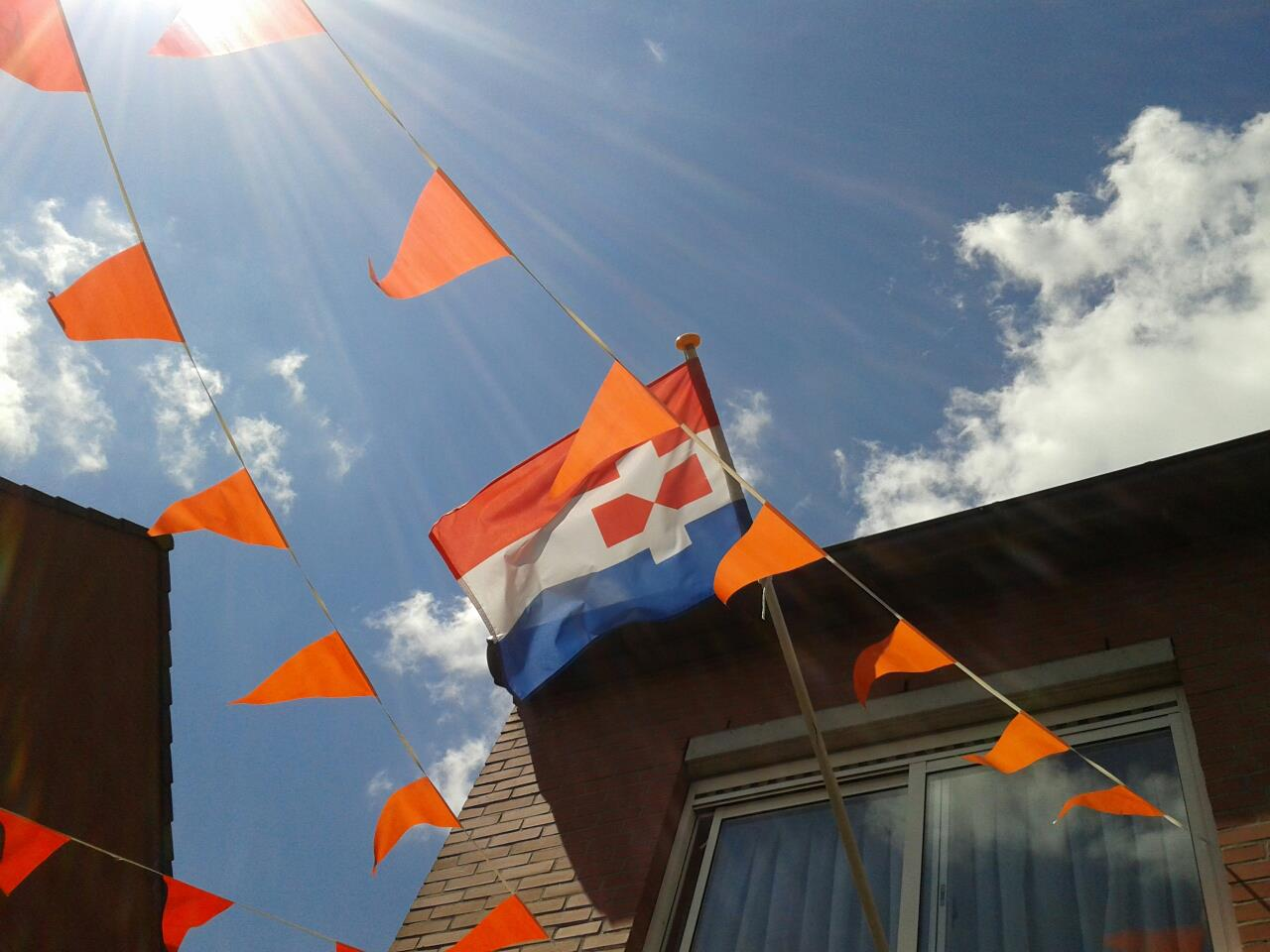 Flag of Zaandam and Zaanstad in Zaandam